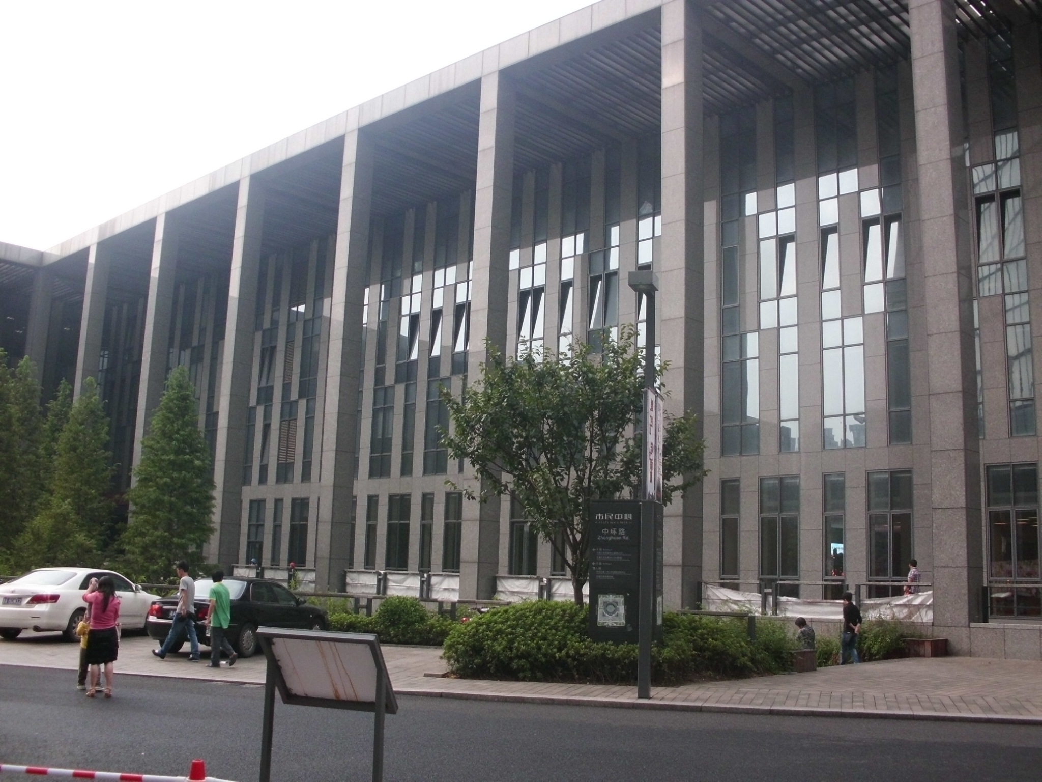 Hangzhou youth and children's development center building